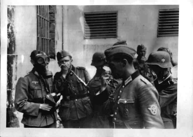 NKVD prisoner massacres